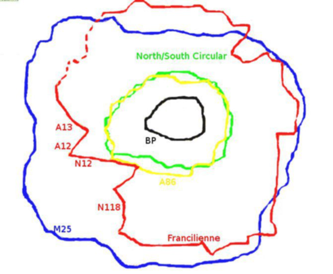 Comparison of Paris and London ring roads (Francilienne, A86 and Périphérique vs M25 and North/South Circular Road)